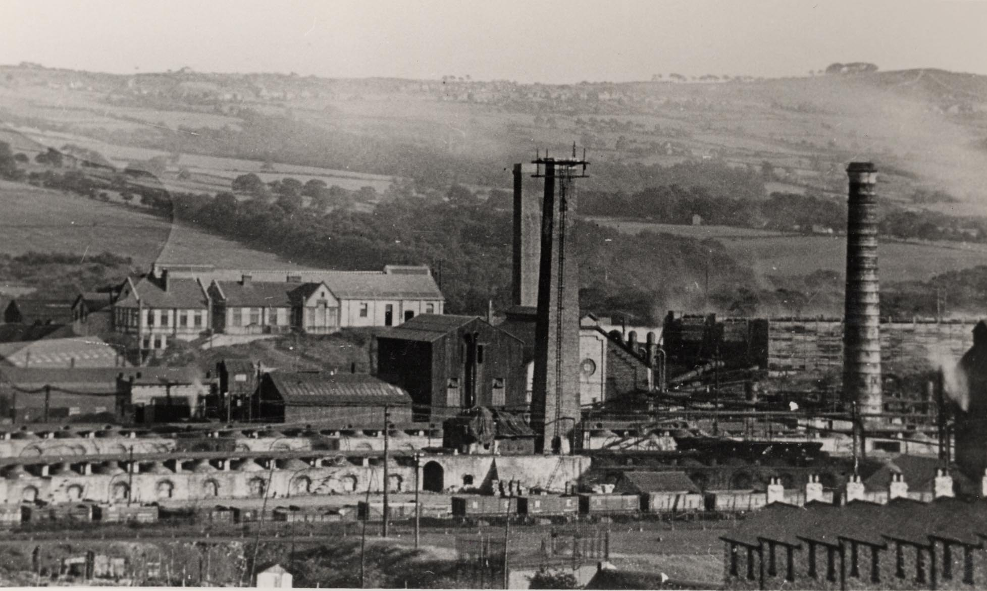 The cokeworks, power station and oxide plant at Whinfield prior to their closure in 1922.